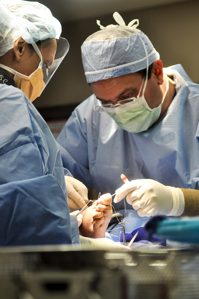 Podiatrist Kamran Jamshidinia performing bunionectory and hammer toe correction surgery.